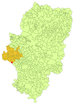 Cimballa_Calatayud_Aragón